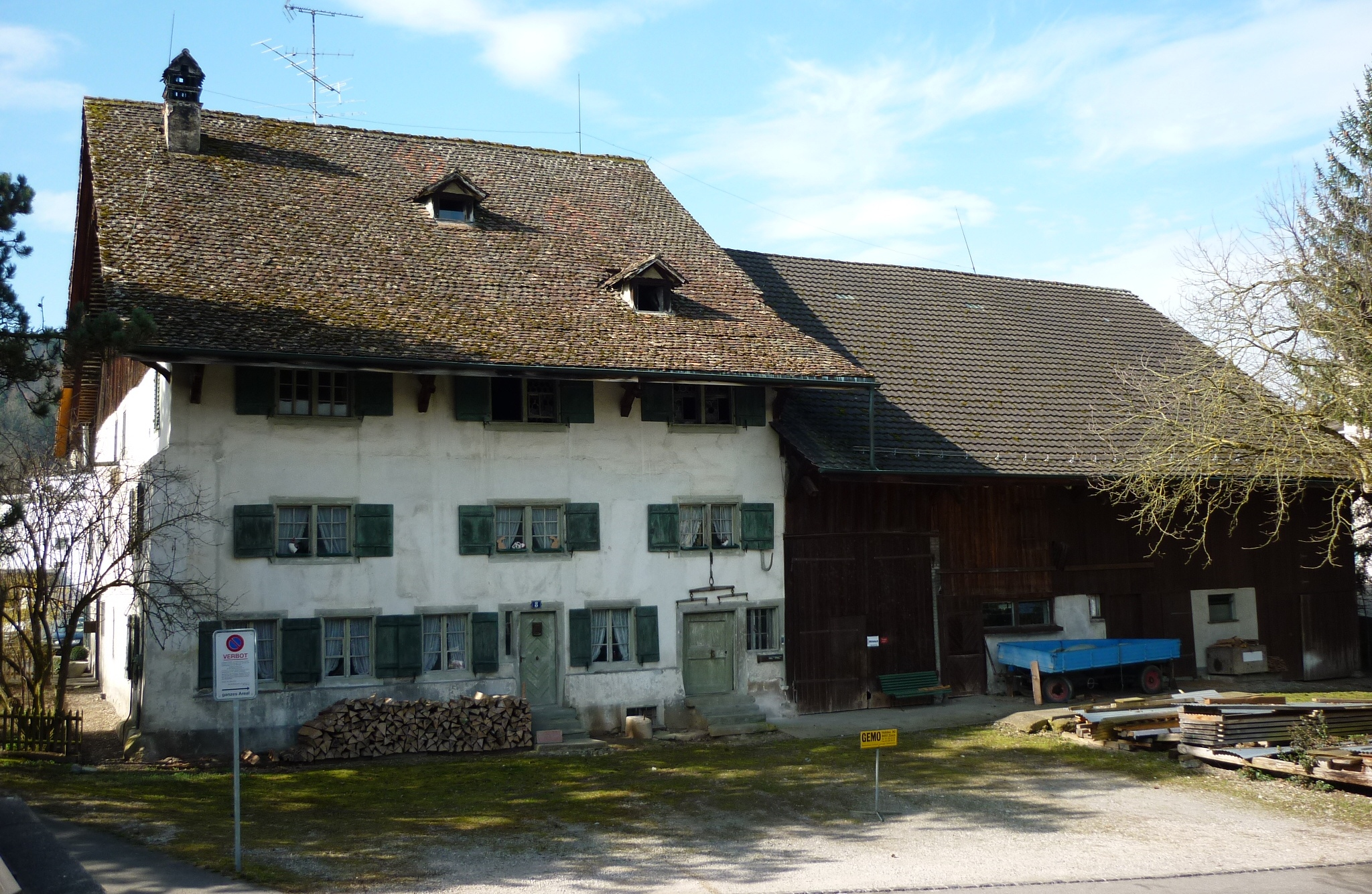 Kehlhof, Zurich-Schwamendingen, Switzerland